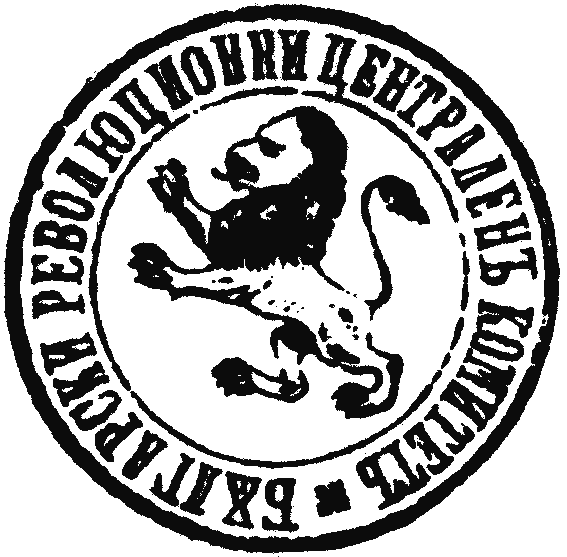 Bulgarian Revolutionary Committee stamp, 1870s